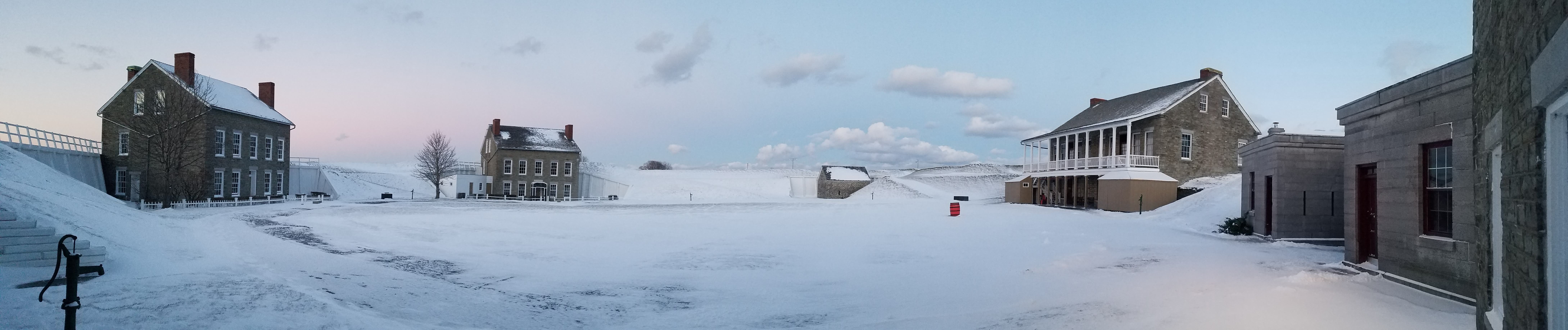 Interior of Fort Ontario after a fresh snowfall, December 2018